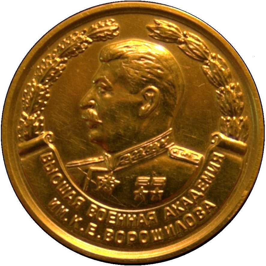 Gold medal for the best graduates 1950 (predicate - excellent) of the “Military Academy of the General Staff of the Armed Forces of Russia”.